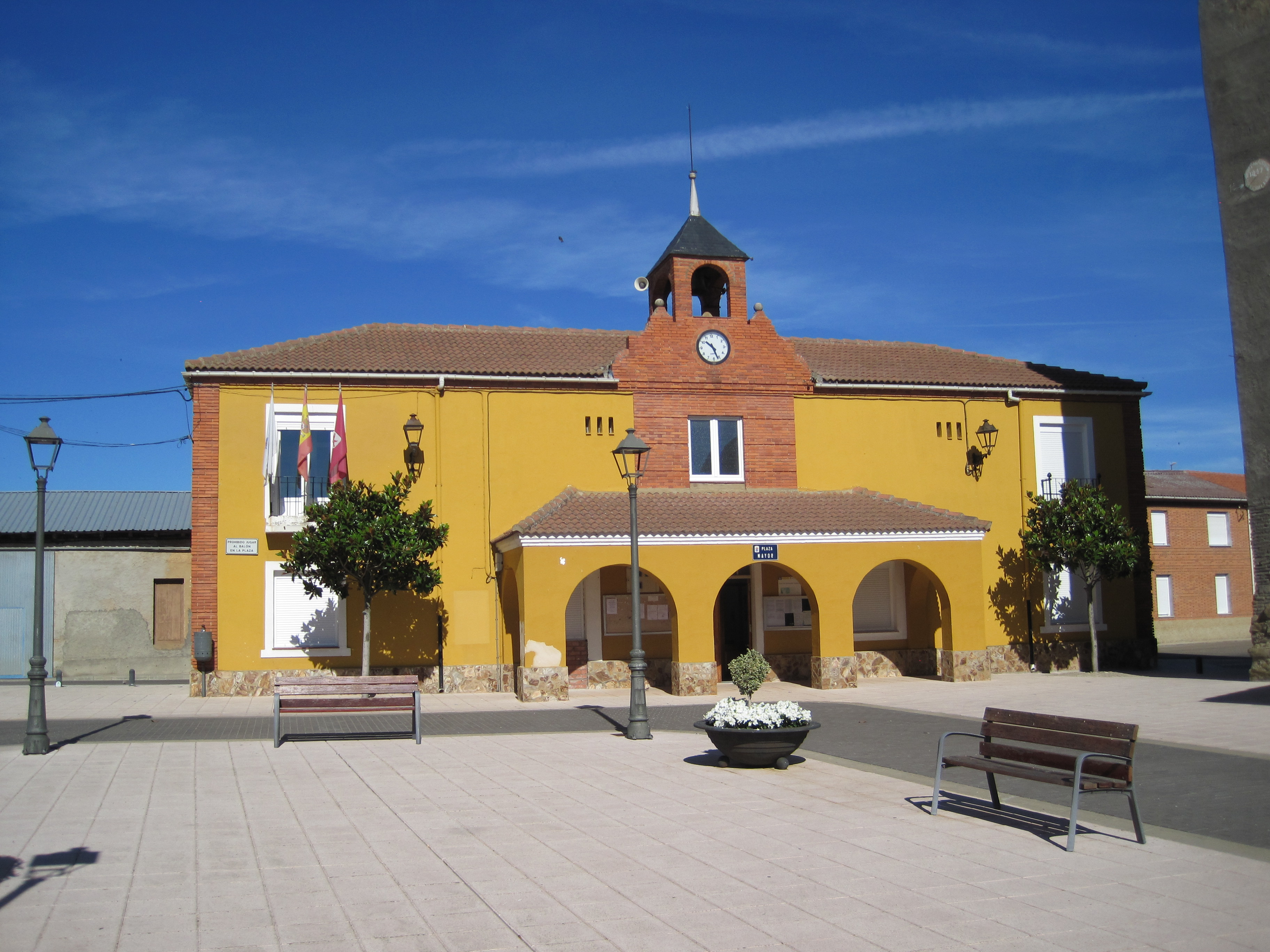 Imagen tomada en Bercianos del Páramo (León).